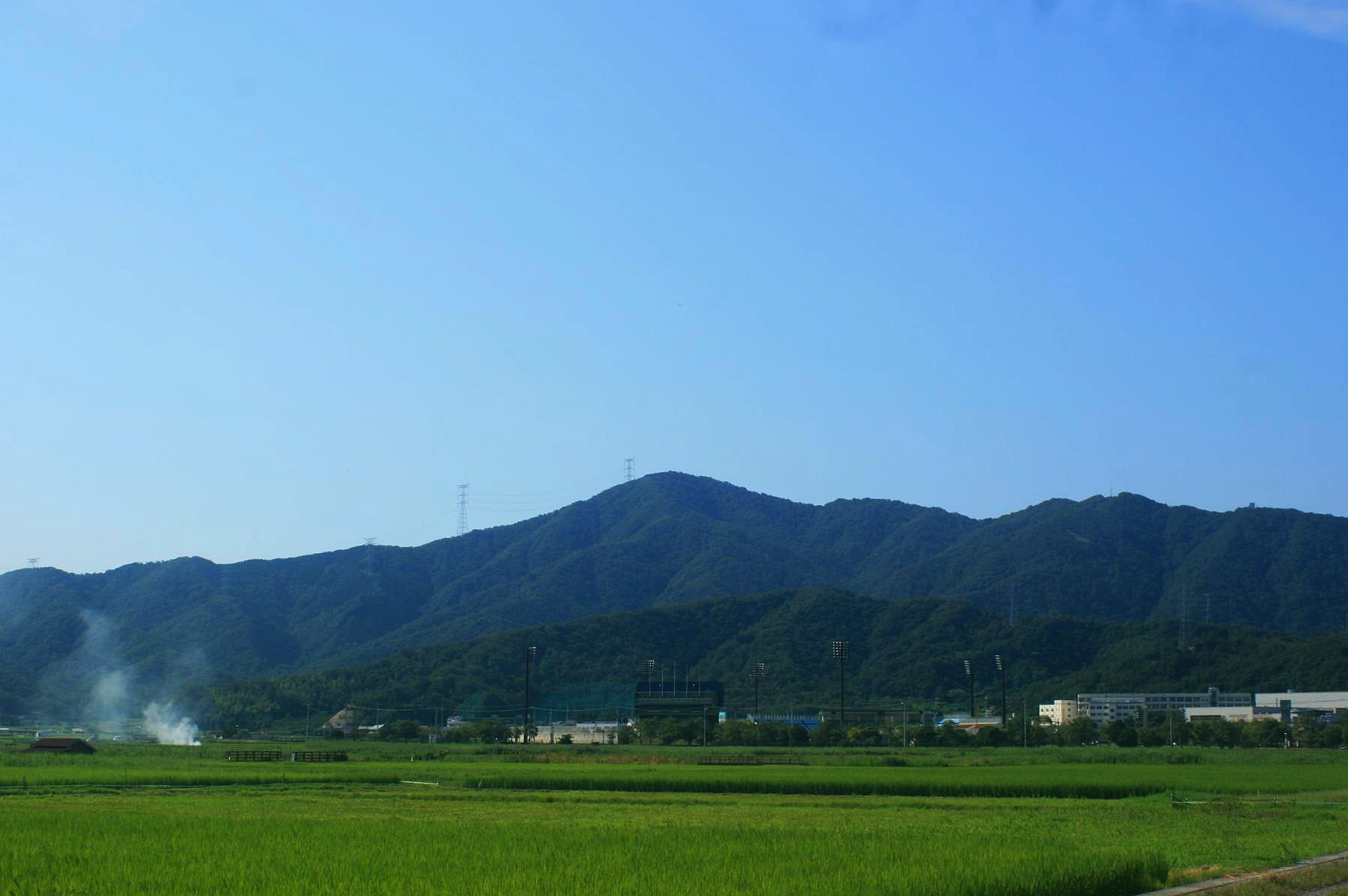 Mt. Miuchi as seen from Route 27.